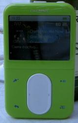 A Zen device